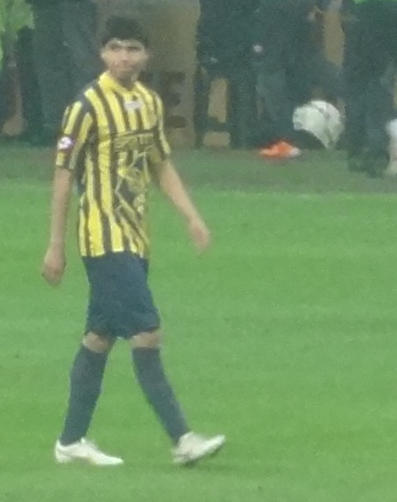 İshak Dogan